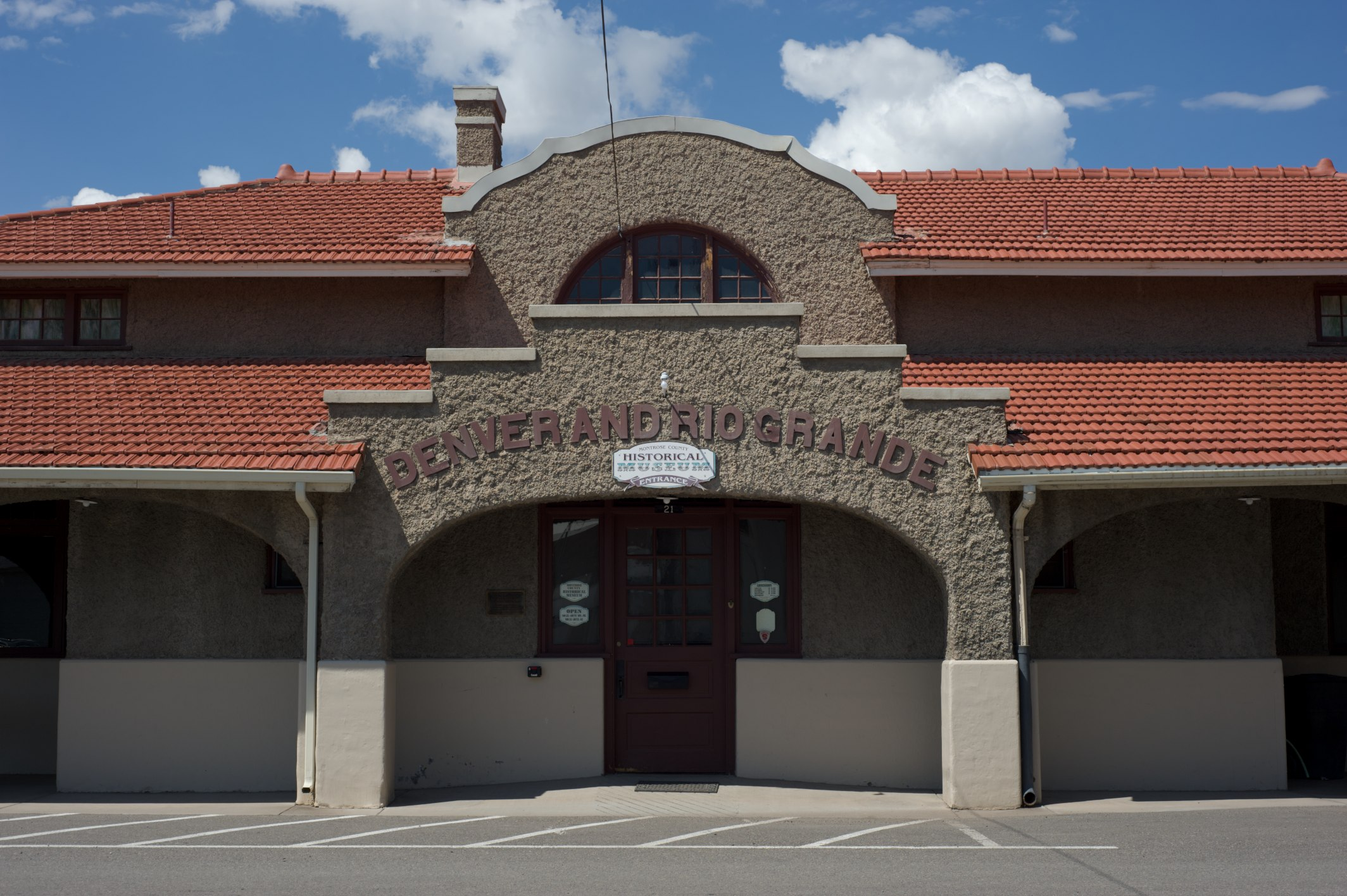 NRHP-listed Denver and Rio Grande Depot inMontrose, Colorado.